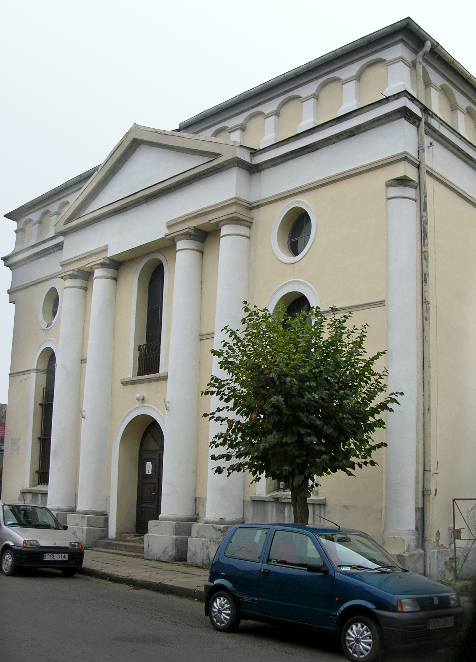 Synagogue in Praszka